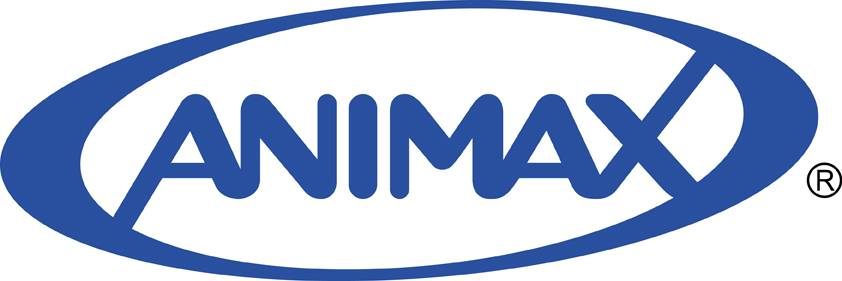 Logo of The channel.